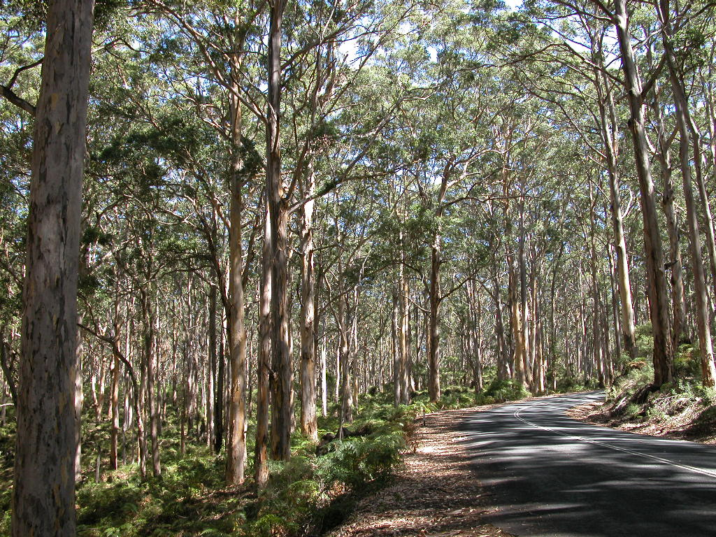 A photo of typical karri (Eucalyptus diversicolor) forest near Pemberton in south west Western Australia